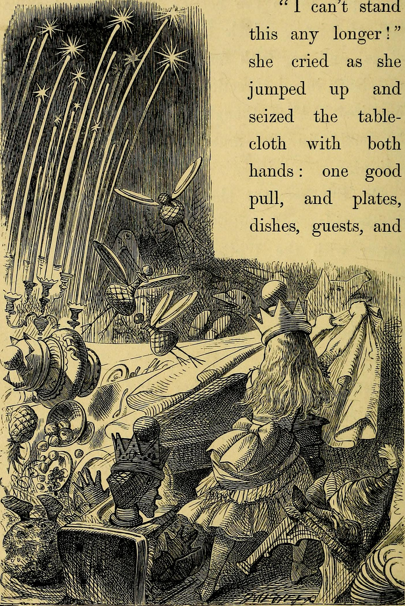 Title: Through the looking glass : and what Alice found there Year: 1872 (1870s) Authors: Carroll, Lewis, 1832-1898 Tenniel, John, 1820-1914 Subjects: Publisher: London : Macmillan and Co. Text Appearing Before Image: tily fitted on aswings, and so, with forks for legs, went flutter-ing about in all directions: and very like birdsthey look, Alice thought to herself, as well asshe could in the dreadful confusion that wasbeginning. At this moment she heard a hoarse laughat her side, and turned to see what was thematter with the White Queen; but, instead ofthe Queen, there was the leg of mutton sittingin the chair. Here I am! cried a voicefrom the soup-tureen, and Alice turned again,just in time to see the Queens broad good-natured face grinning at her for a moment overthe edge of the tureen, before she disappearedinto the soup. There was not a moment to be lost. Alreadyseveral of the guests were lying down in thedishes, and the soup-ladle was walking up thetable towards Alices chair, and beckoning to herimpatiently to get out of its way. p 2 212 QUEEN ALICE. I cant standthis any longer ! she cried as shej limped up andseized the table-cloth with bothhands: one goodpull, and plates,dishes, guests, and Text Appearing After Image: QUEEN ALICE. 213 candles came crashing down together in a heapon the floor. And as for you she went on, turningfiercely upon the Eed Queen, whom she con-sidered as the cause of all the mischief——but the Queen was no longer at her side she had suddenly dwindled down to the size of a littledoll, and was now on the table, merrily runninground and round after her own shawl, whichwas trailing behind her. At any other time, Alice would have feltsurprised at this, but she was far too muchexcited to be surprised at anything now. Asfor you, she repeated, catching hold of the littlecreature in the very act of jumping over a bottlewhich had just lighted upon the table, I 11shake you into a kitten, that I will!